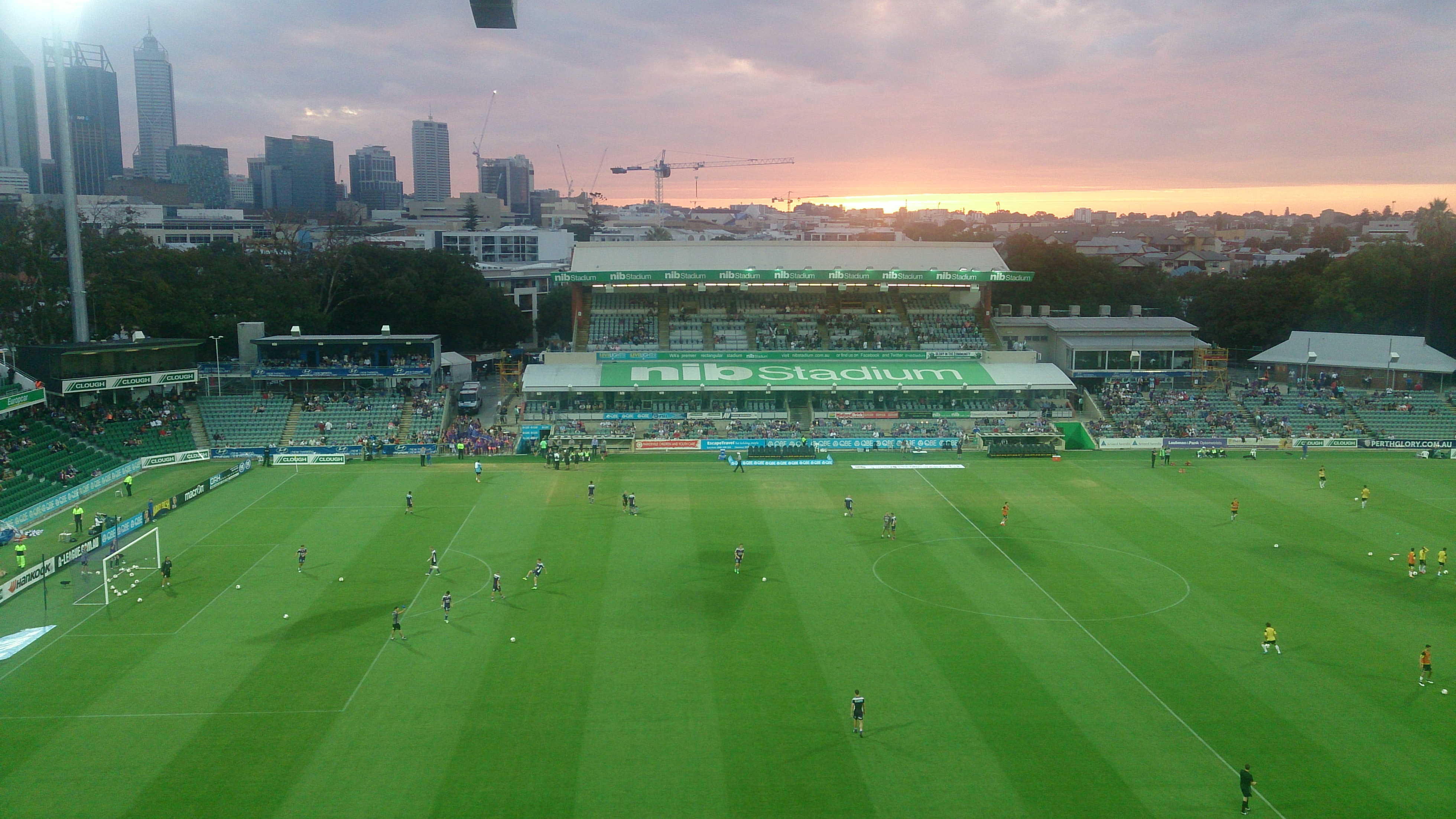 Pre-game warm up at a Perth Glory's home ground NIB Stadium in March 2015.